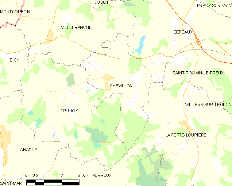 Map of French municipality Chevillon